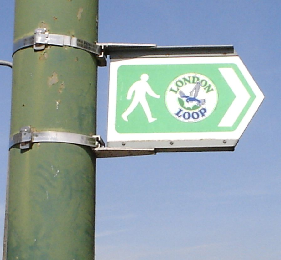 A sign marking a public footpath on the London LOOP (London Outer Orbital Path) route. Credits I took this photo myself and I'm releasing it into the public domain. After all, I didn't design the sign or the logo, so it seems morally wrong for me to claim any rights to its likeness. Category:Images of England